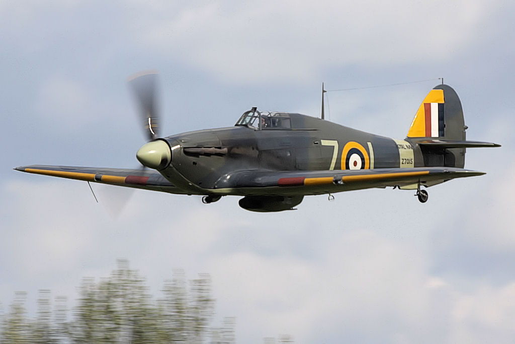 Sea Hurricane - Shuttleworth Spring Airshow 2009